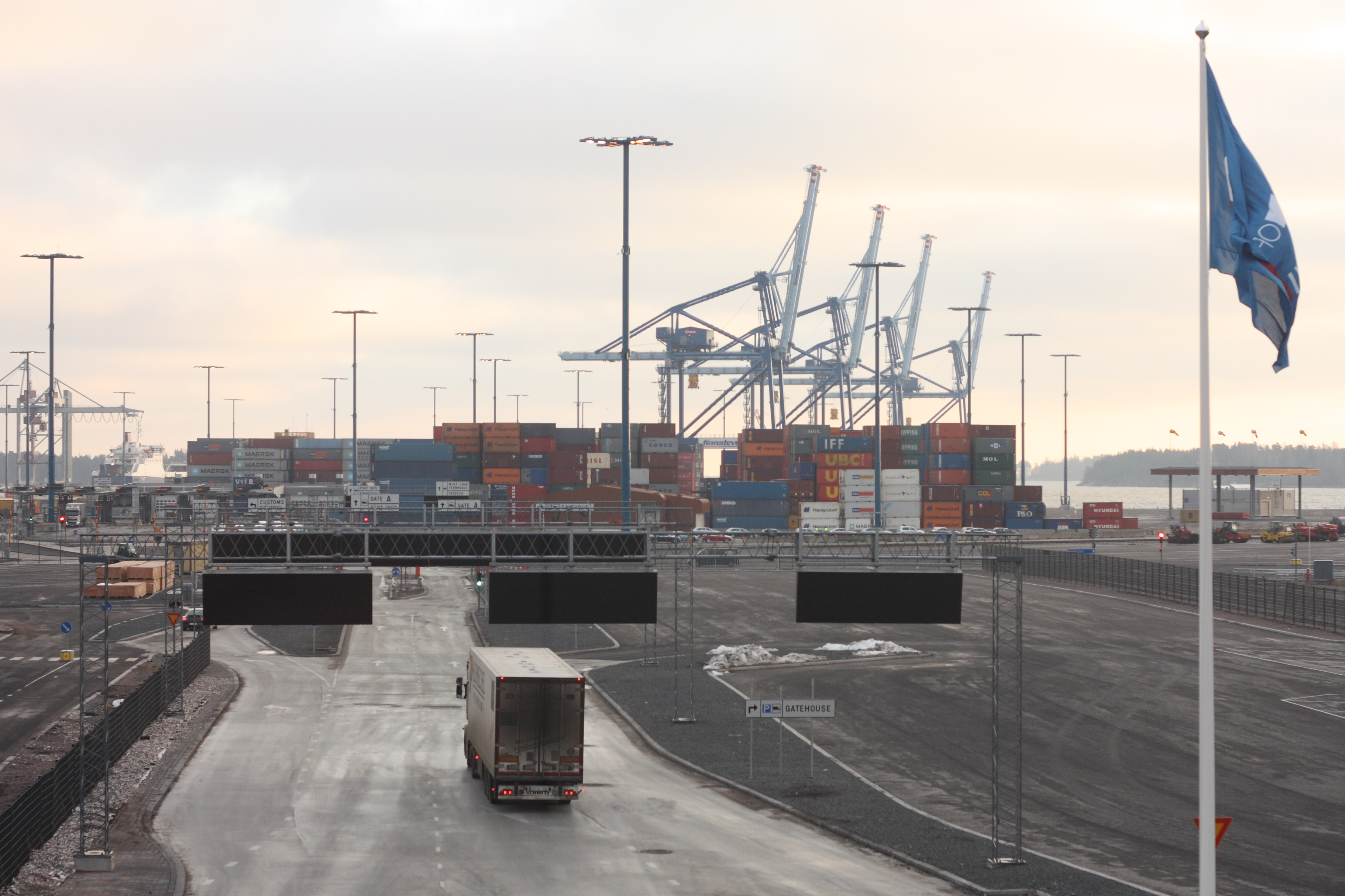 Vuosaari Harbour in Helsinki seen from the pedestrian bridge.